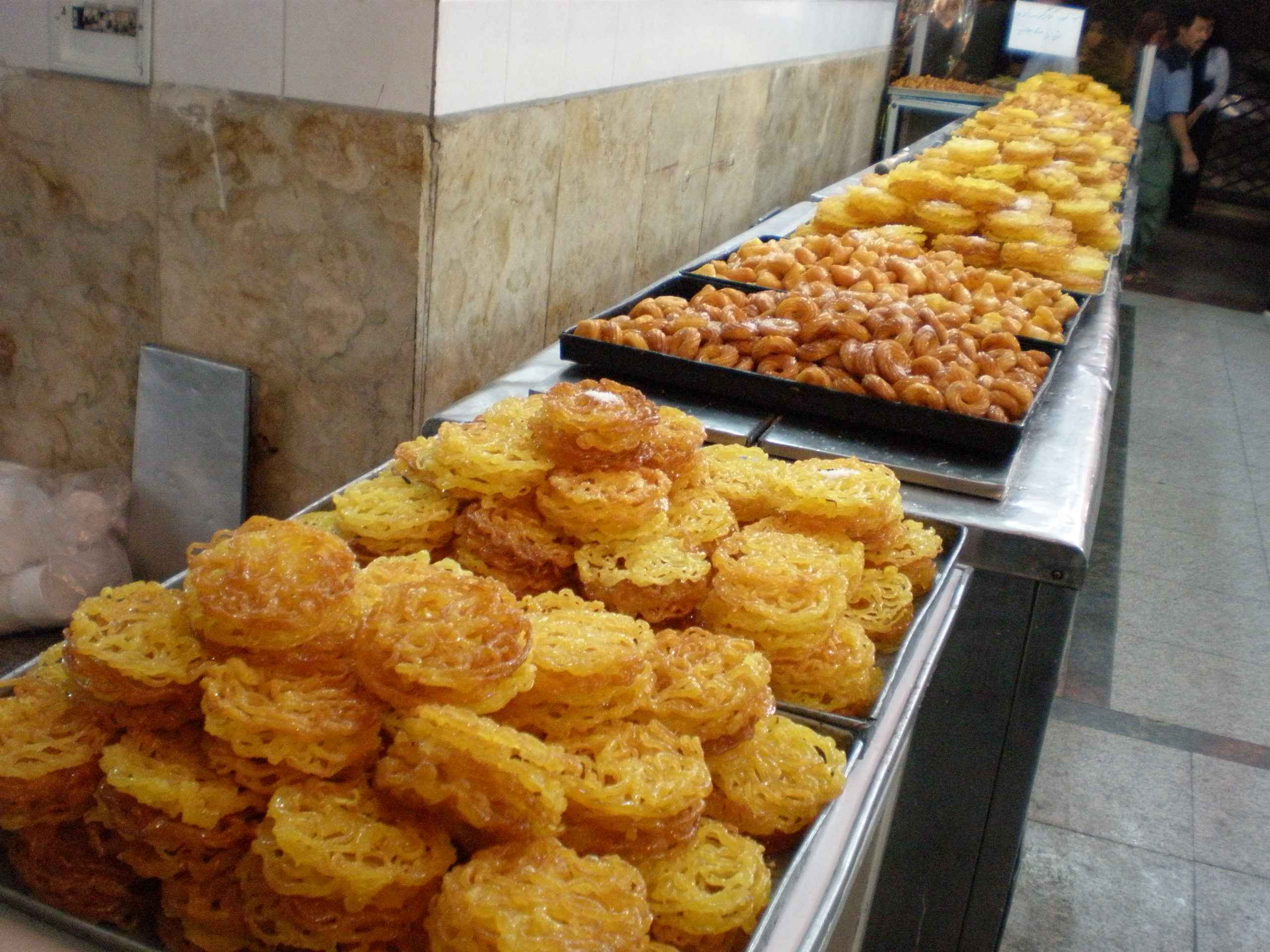 Zoolebia and Bamieh, Iranian sweet